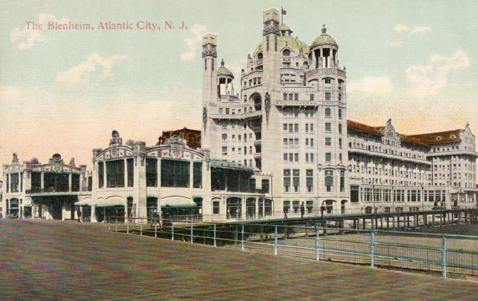 Glossy postcard of the Blenheim Hotel, Atlantic City, New Jersey. No publication information. The back is divided.